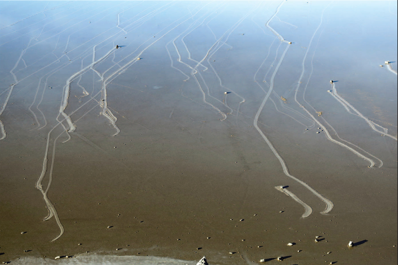 Sailing Stones at Racetrack Playa, Death Valley National Park, California, USA. The image shows the tracks of rocks that were moved by floating ice on a thin water layer.